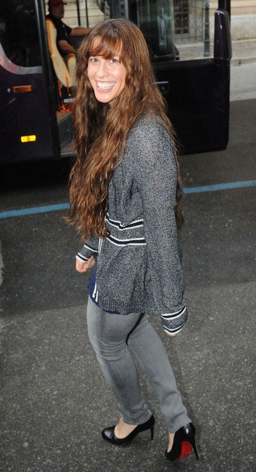 alanis morissette in praha